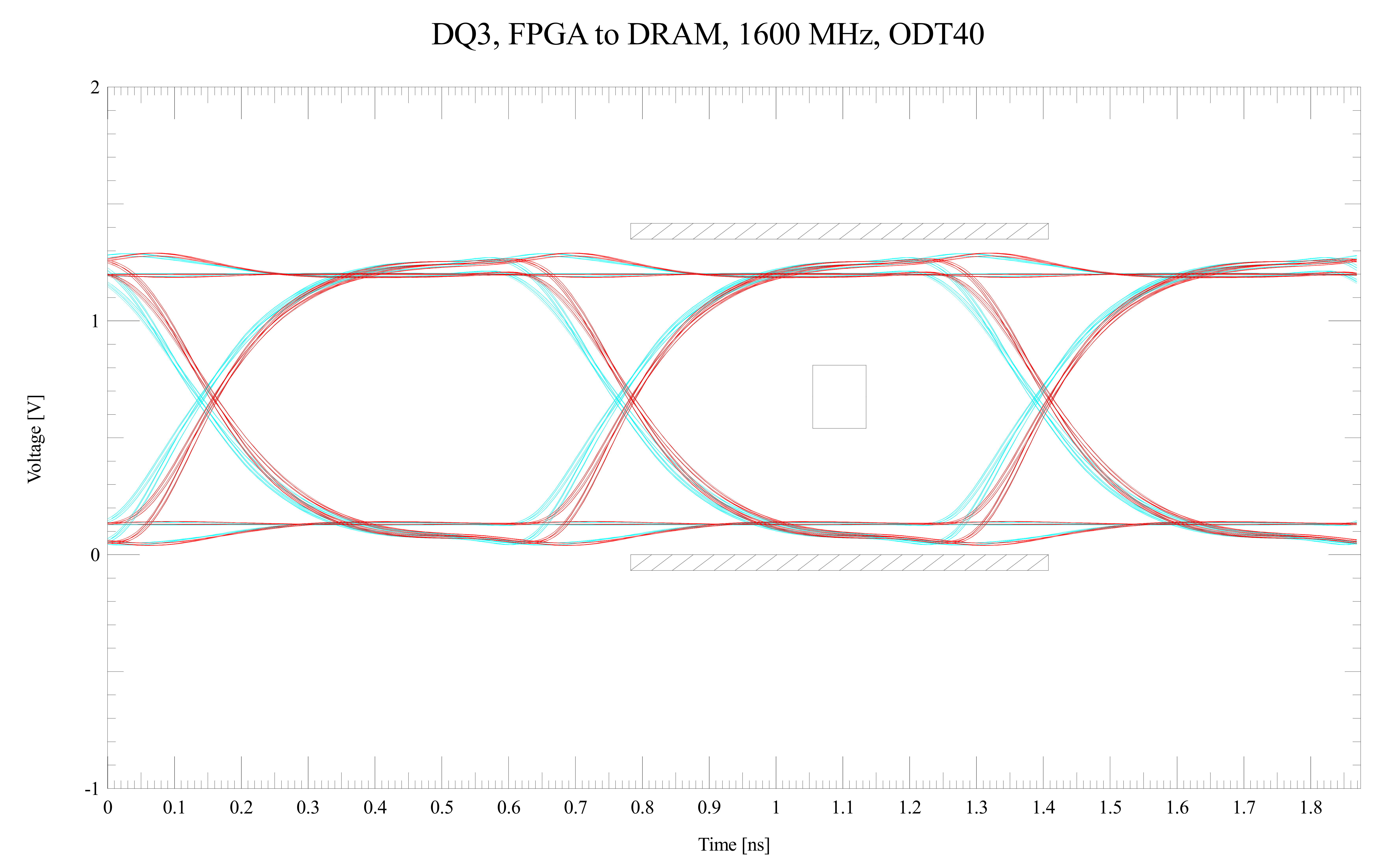 A simulated eye diagram illustrating the signal integrity at the package ball (blue) and on-die (red). The simulation is conducted in Cadence Allegro PCB.